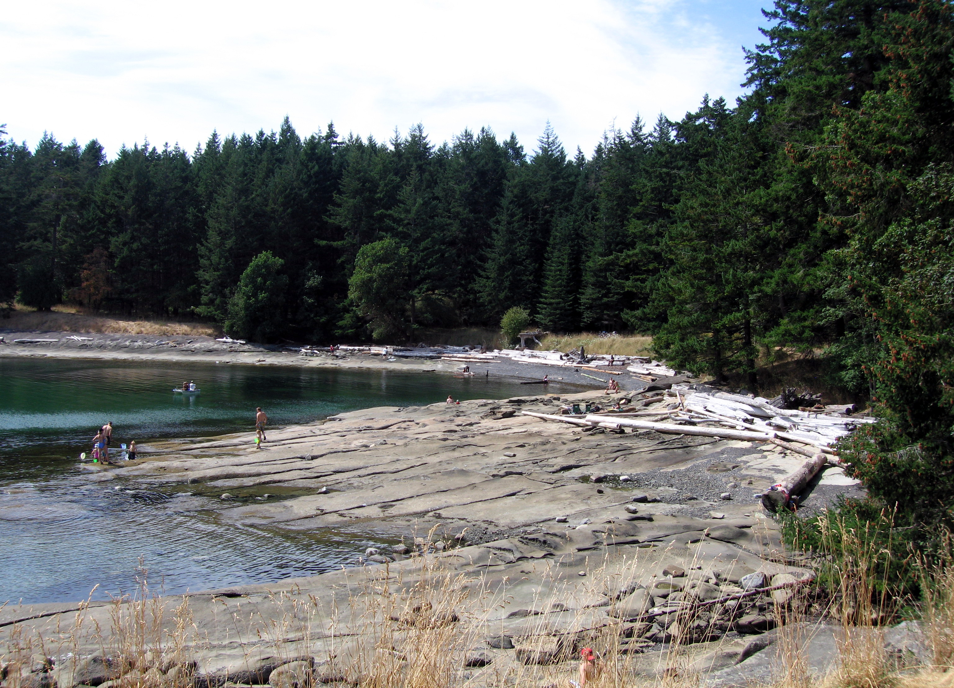 Drumbeg provincial park on Gabriola Island, August 2005